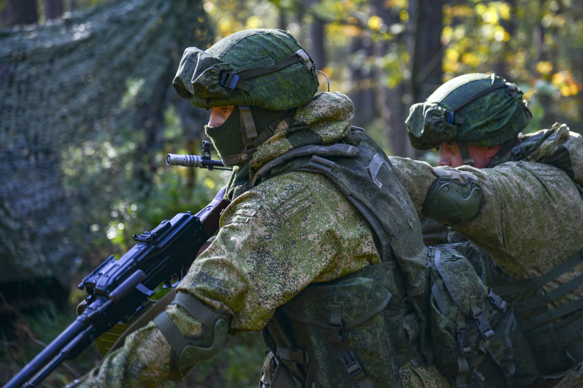 Russian 137th Guards Parachute Landing Regiment.